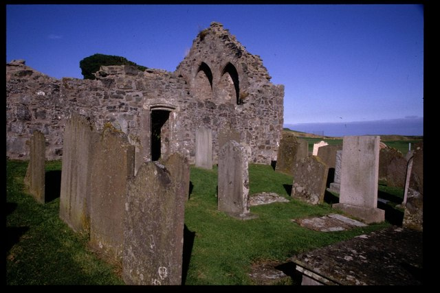 Cowie kirk. St Mary of the Storms. Originally dedicated to St.Nathalan AD678 and later to St Mary.